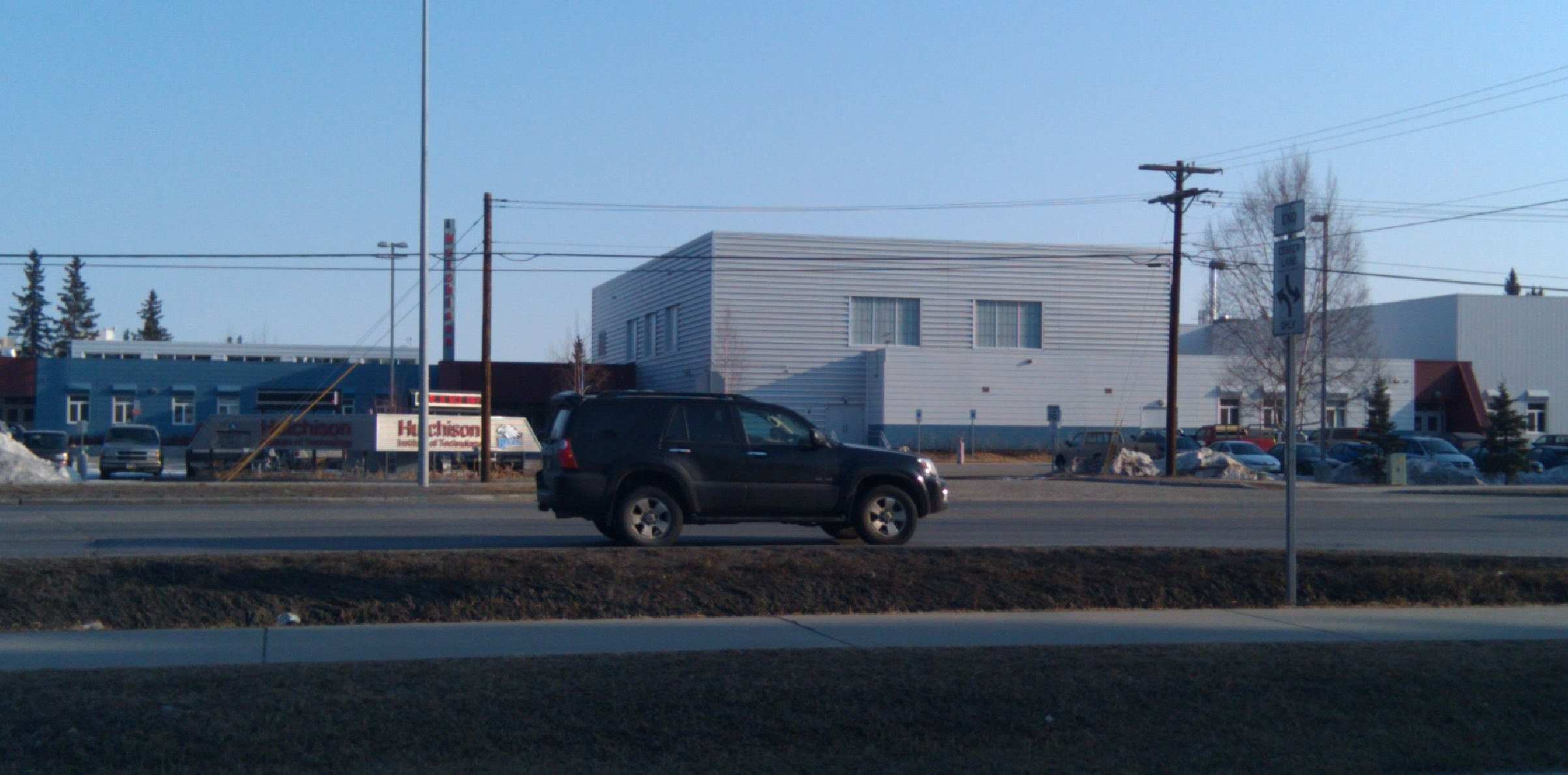 Hutchison High School in Fairbanks, Alaska. Shared by Fairbanks public schools and the University of Alaska Fairbanks since its construction ca. 1975.